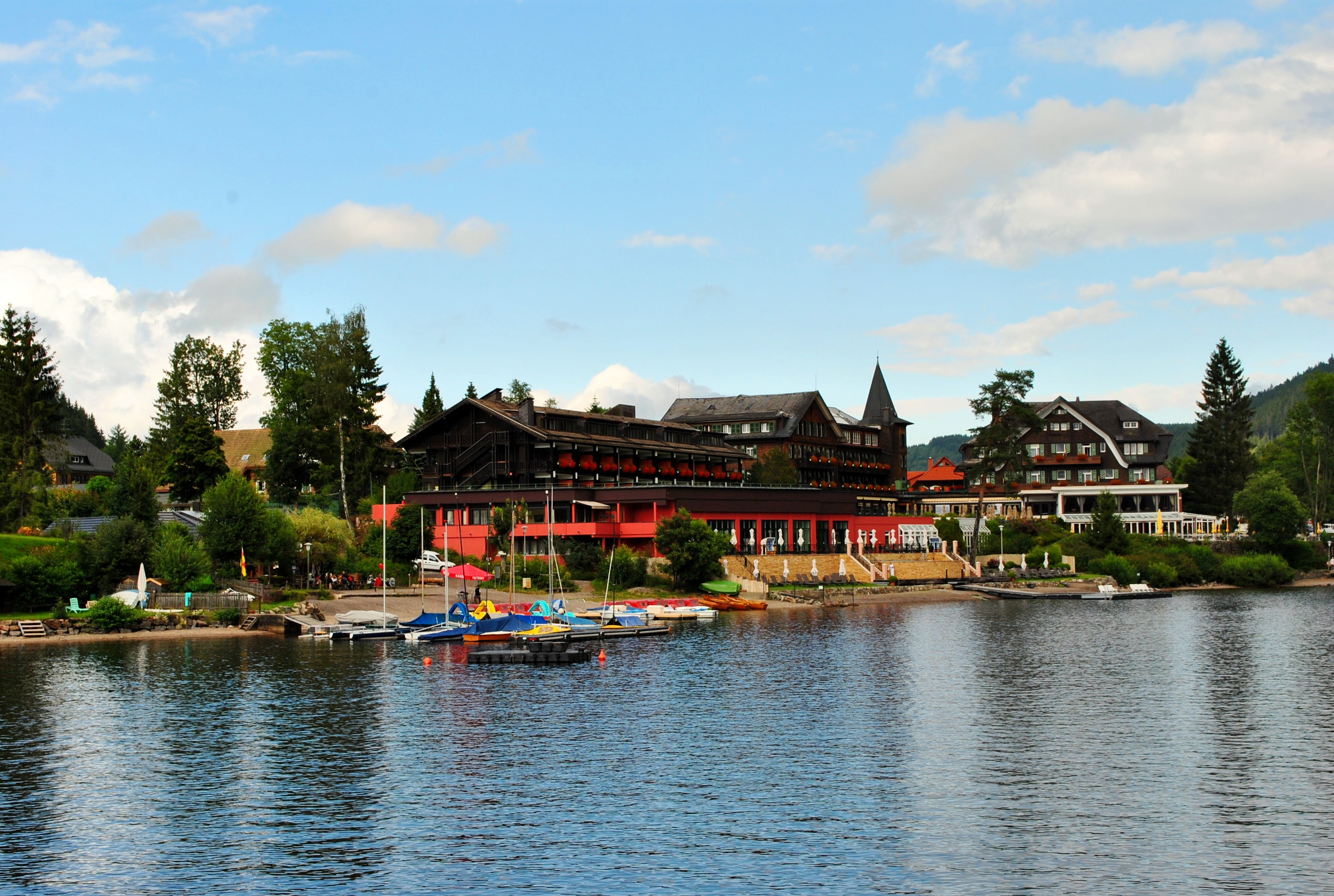 The restaurant, souvenir shops and the port.